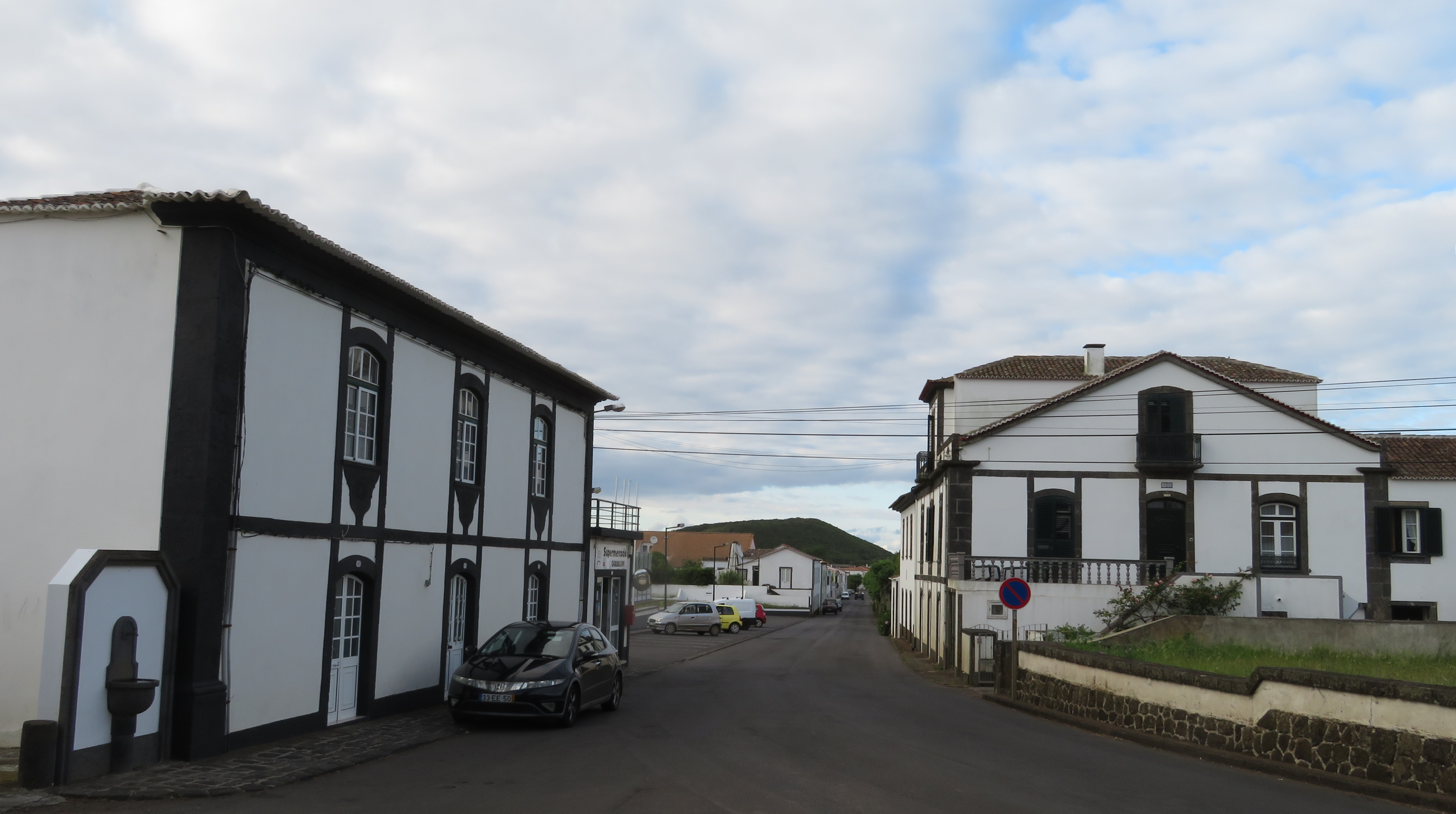 Main Street, houses built in the 18th and 19th century. Guadalupe, Graciosa, Azores, Portugal